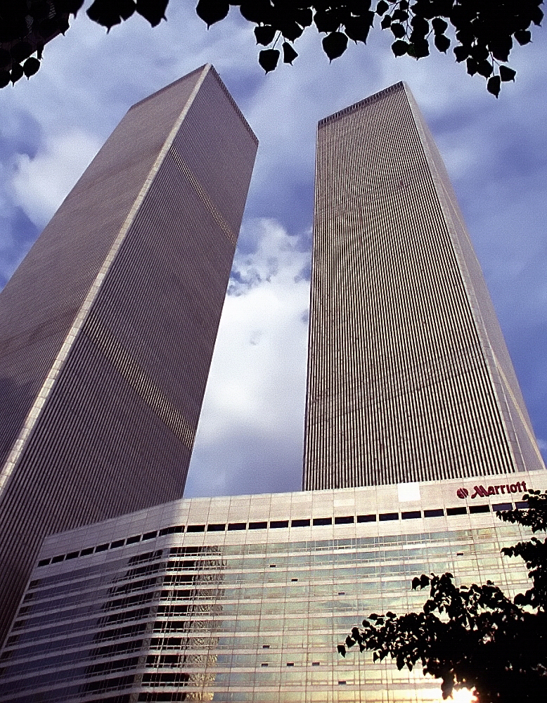 Marriott World Trade Center and Twin Towers